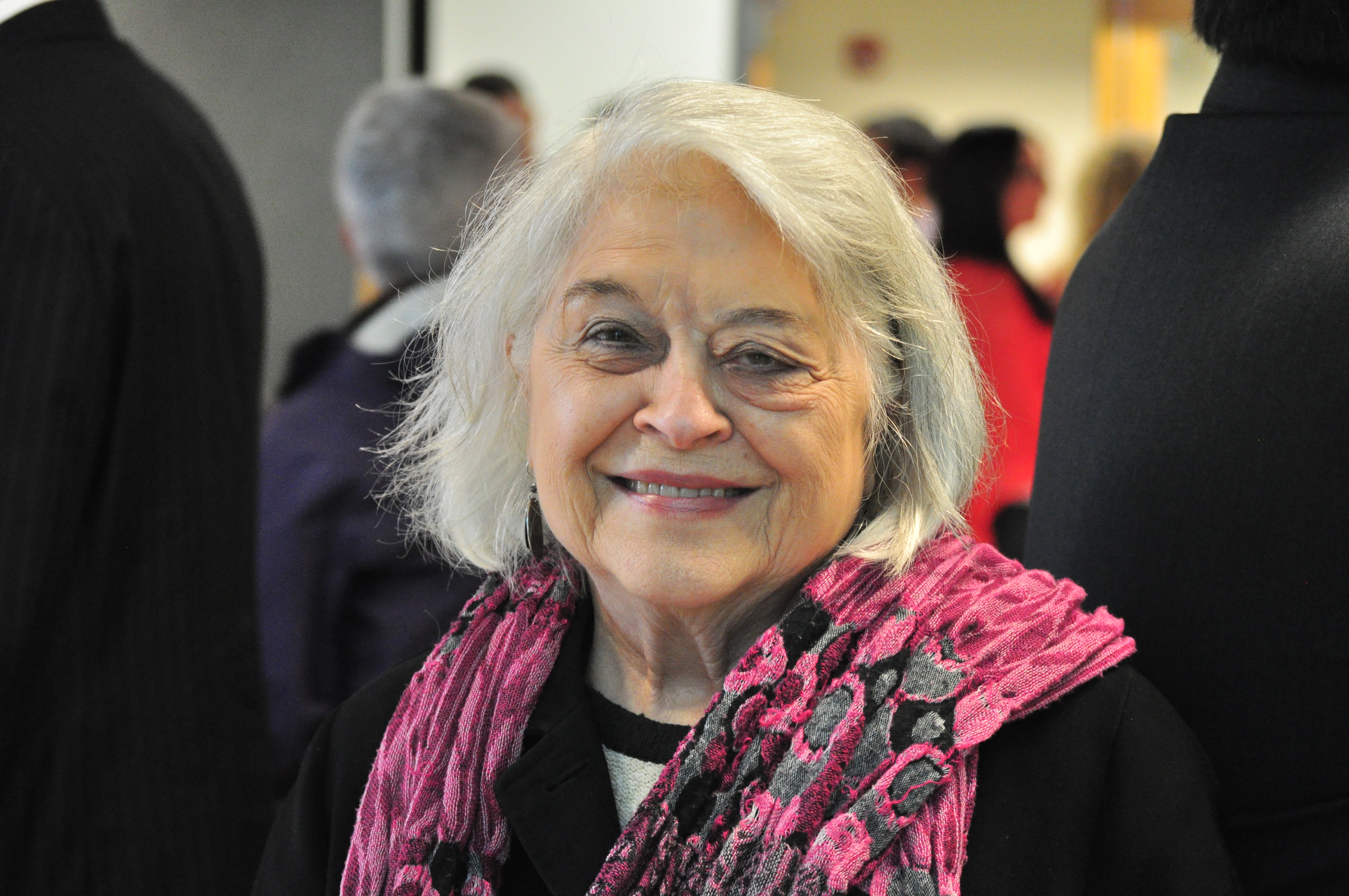 Phyllis Gutierrez Kenney, former member of the Washington State House of Representatives from the 46th District, photographed at state attorney general Bob Ferguson's annual Shrimp Feed, a Democratic Party get-together at Northgate Community Center, Seattle, Washington.